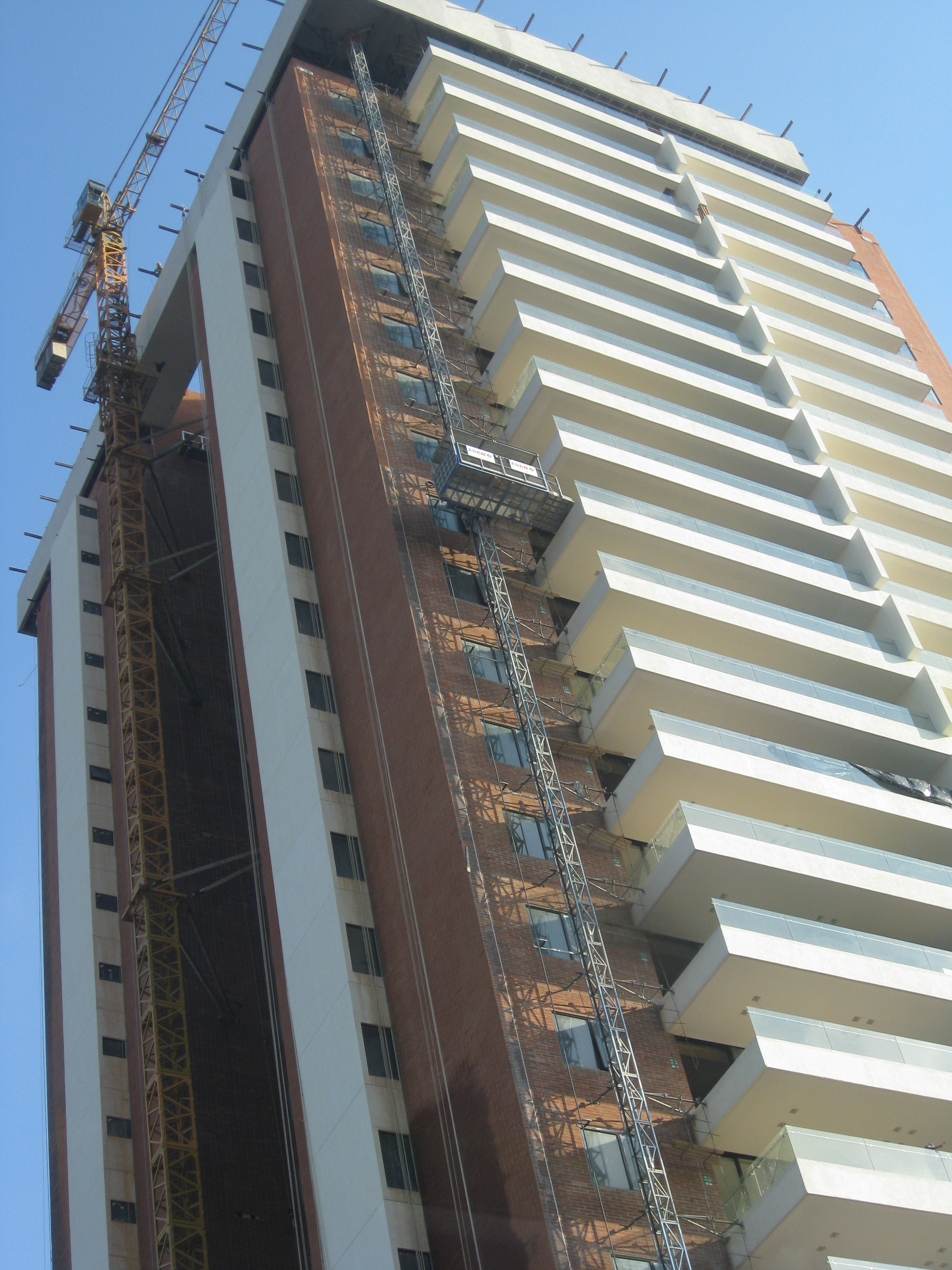 El Pedregal tallest building in Central America, 106m 26 floors